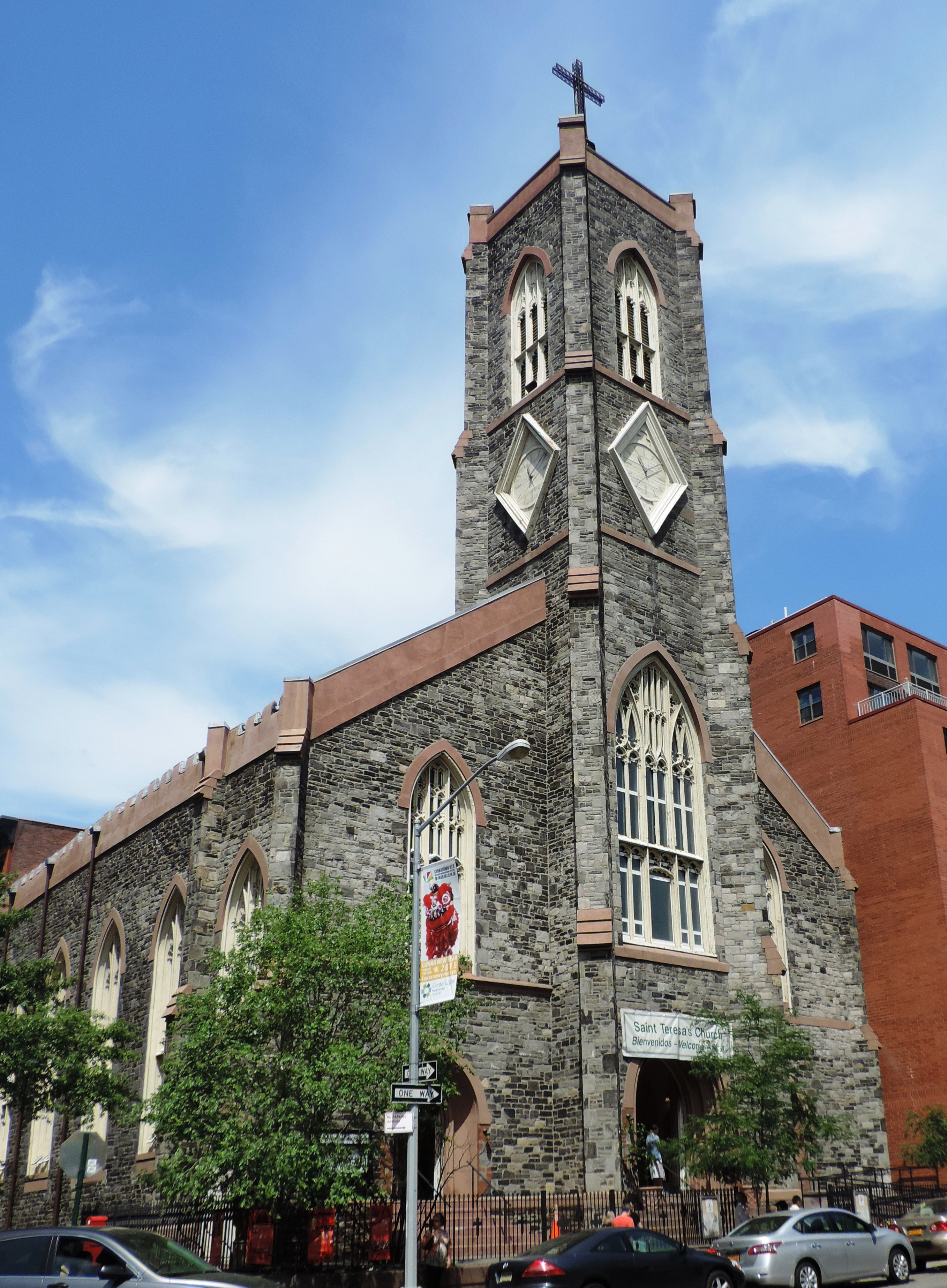 Looking west across Rutgers Street on a sunny morning.